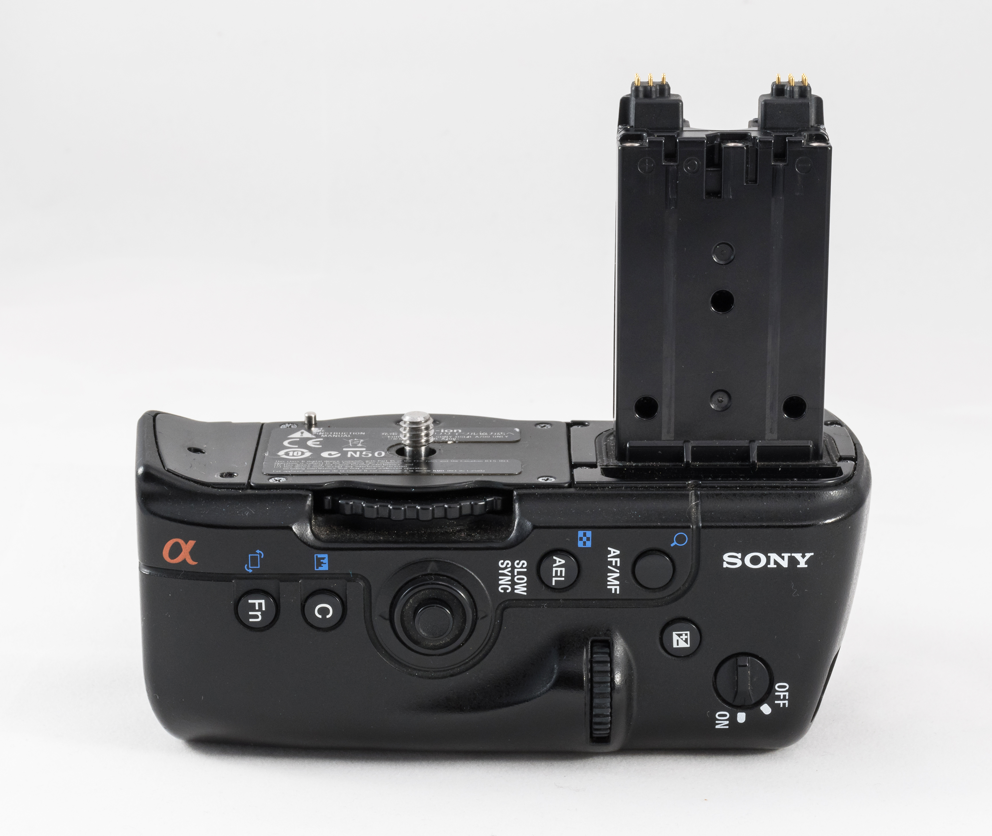 Sony N50 battery grip